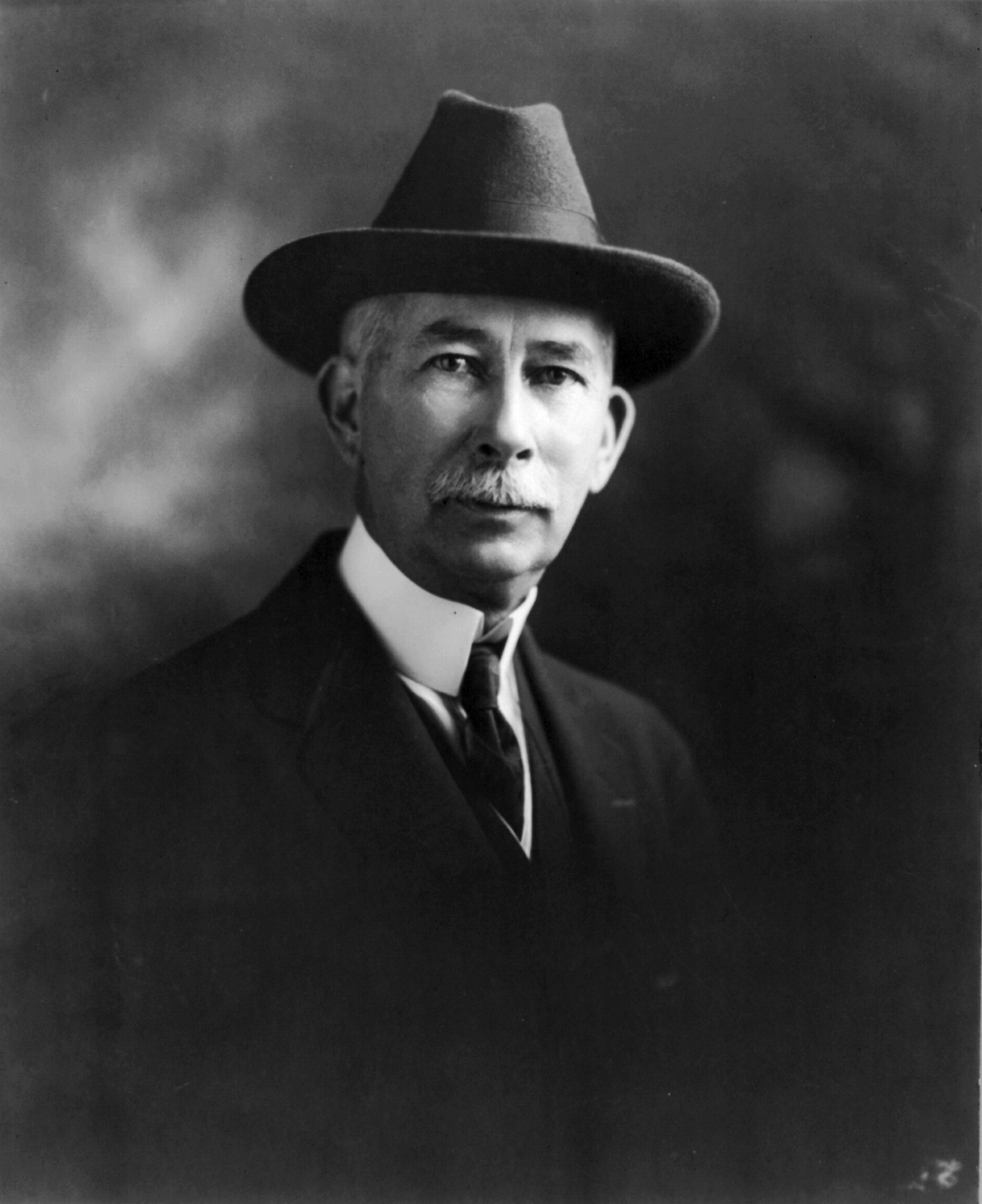 Edward M. House, American diplomat